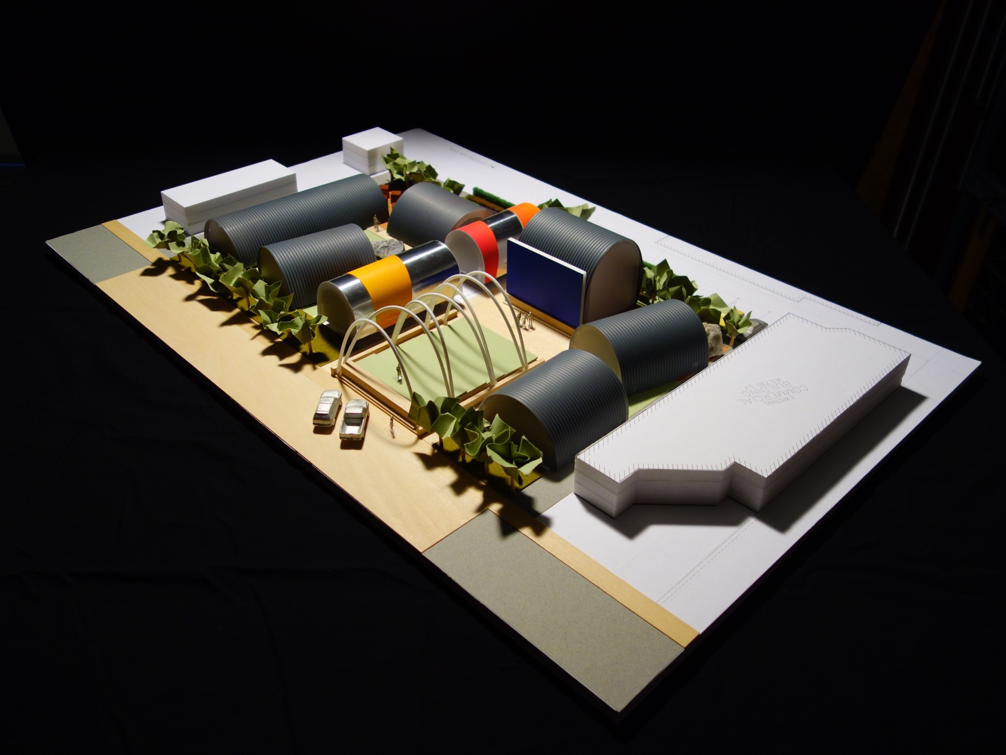 TN_Model